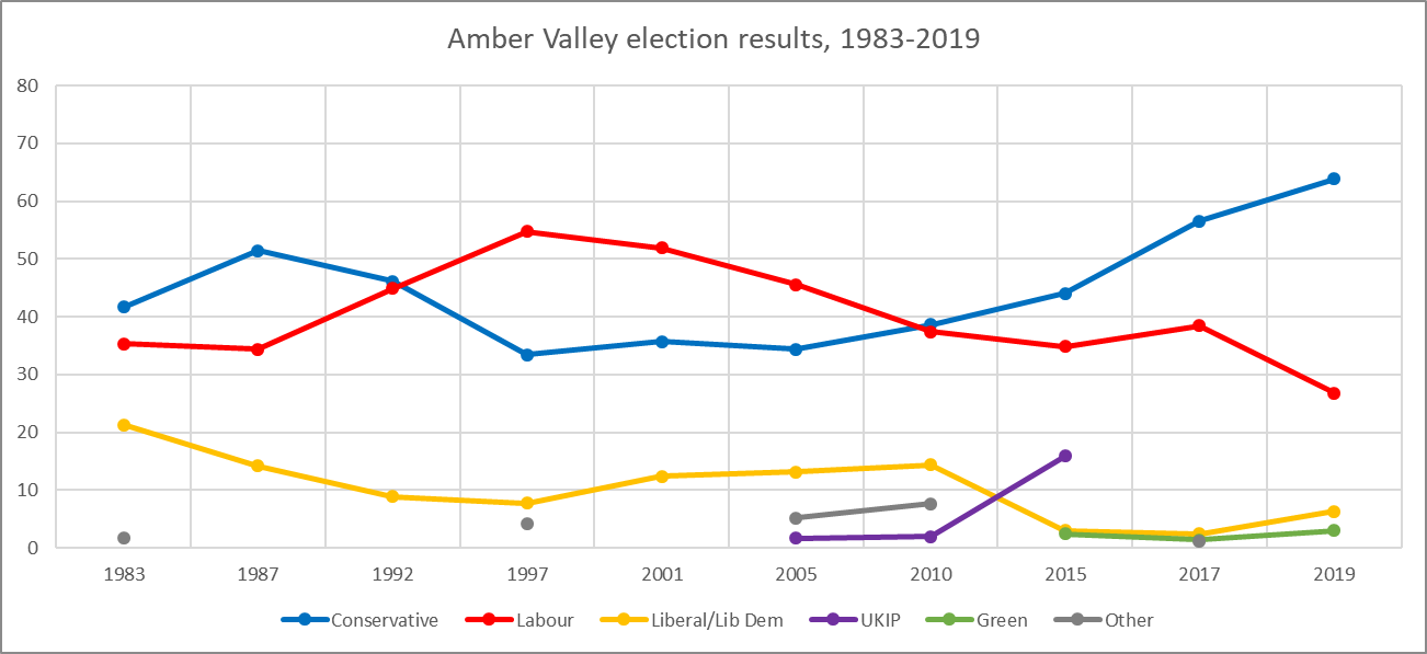 Graph showing election results for Amber Valley constituency.